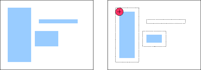 Illustration of morphological erosion of binary images.